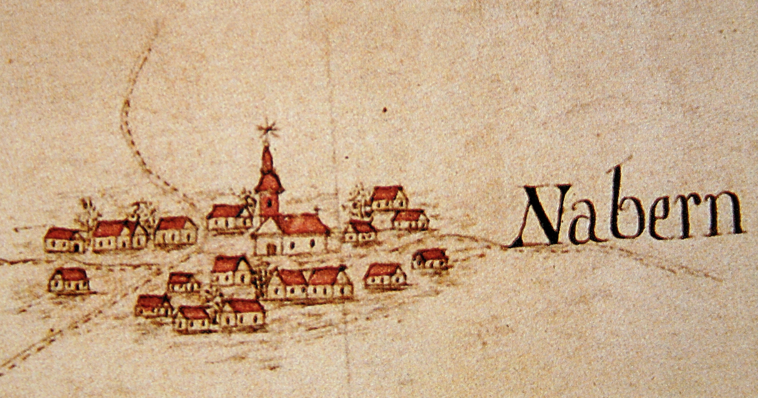 Oborzany (Nabern) in year 1772